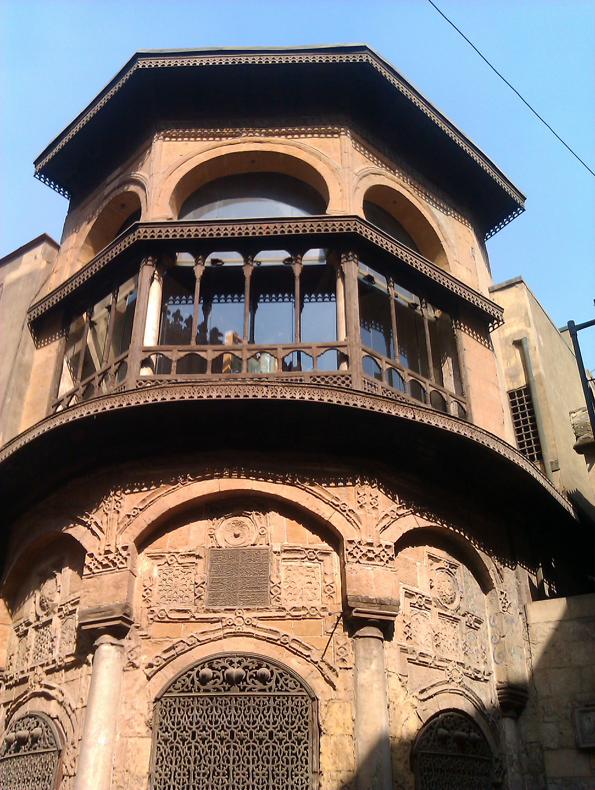 Nafisa Al Bayda Sabil, adjacent to Bebe Zuiela in Cairo.